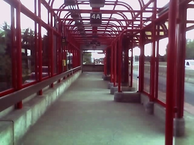 Queensway Station, inside Platform 4A serving 417/Queensway eastbound, on OC Transpo's Transitway in Ottawa, Ontario, Canada.